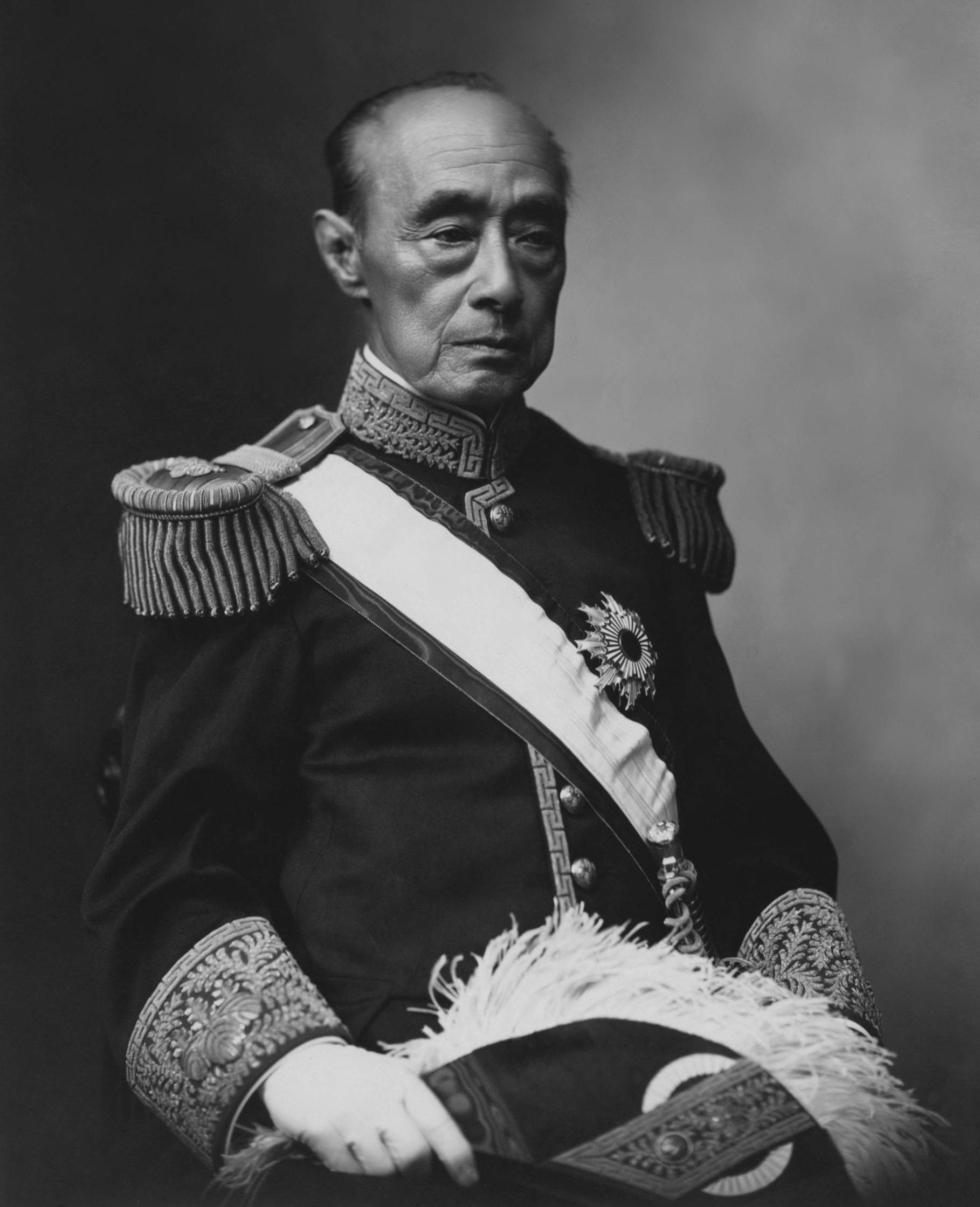 Yoshinobu Tokugawa 徳川慶喜 was the 15th and last shōgun of the Tokugawa shogunate of Japan.